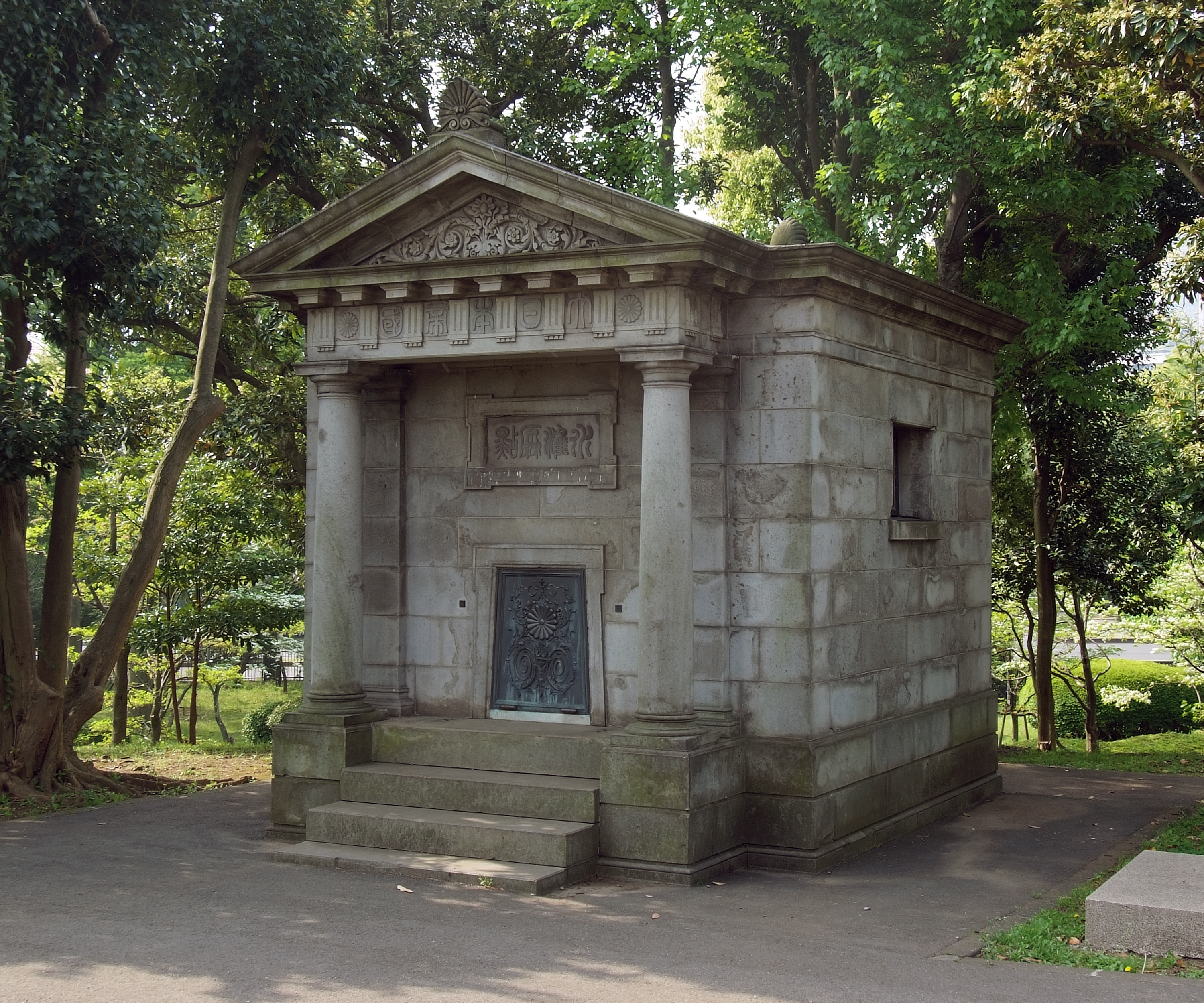 Japanese vertical datum, Chiyoda-ku Tokyo Japan, designed by Shichijiro Satachi in 1891.